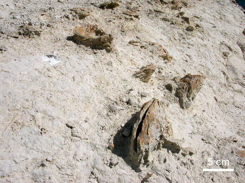 Fossil oysters from the Paleogene of Chubut, Argentina